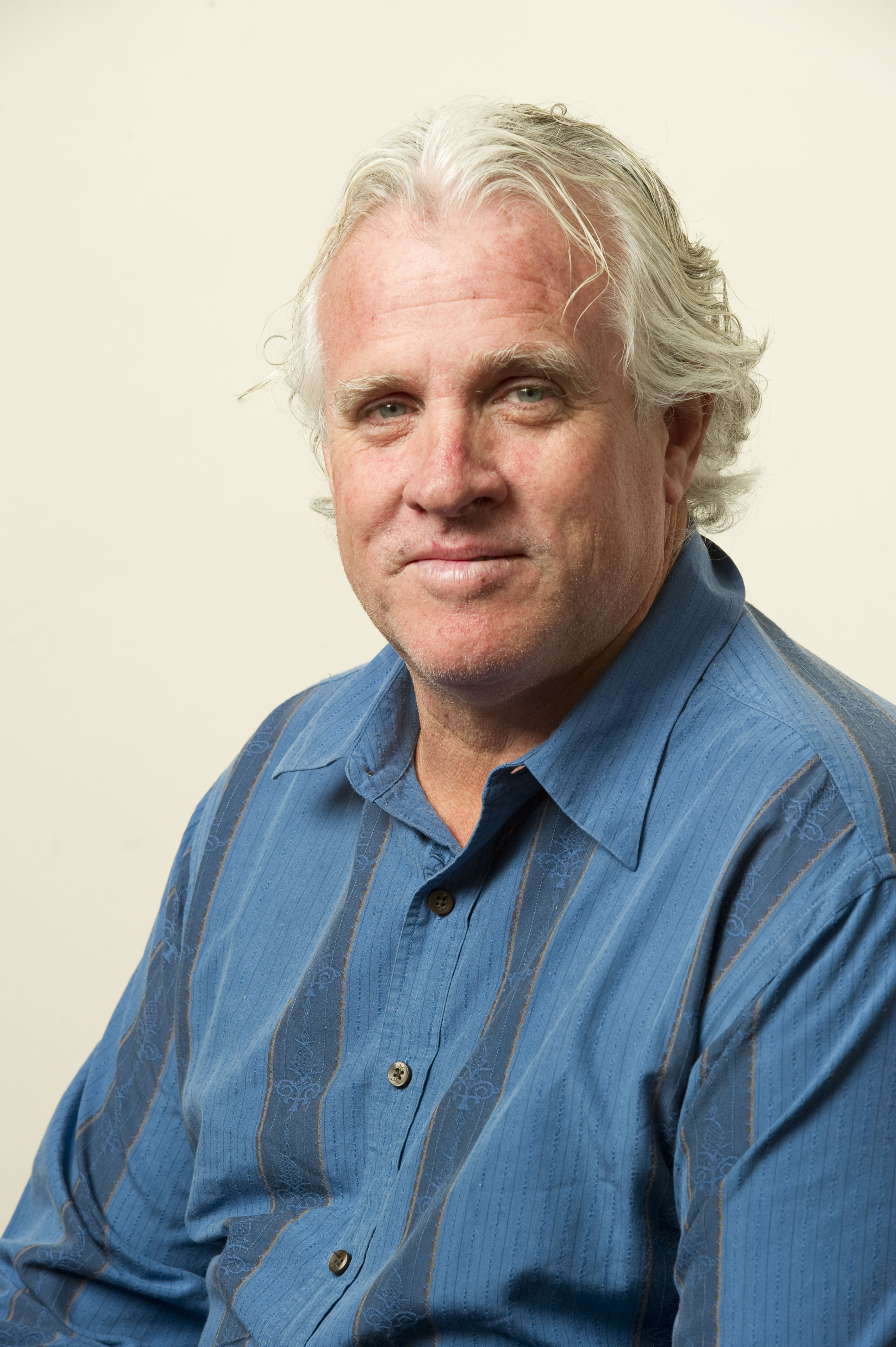 Paddy Crumlin - Head shot